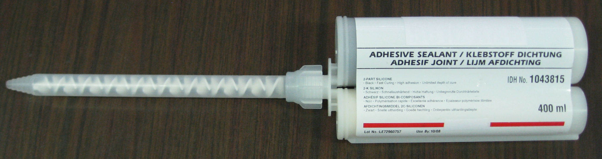 2-part silicone elastic adhesive sealant (Loctite 5610). Mix ratio: 2:1 by volume.